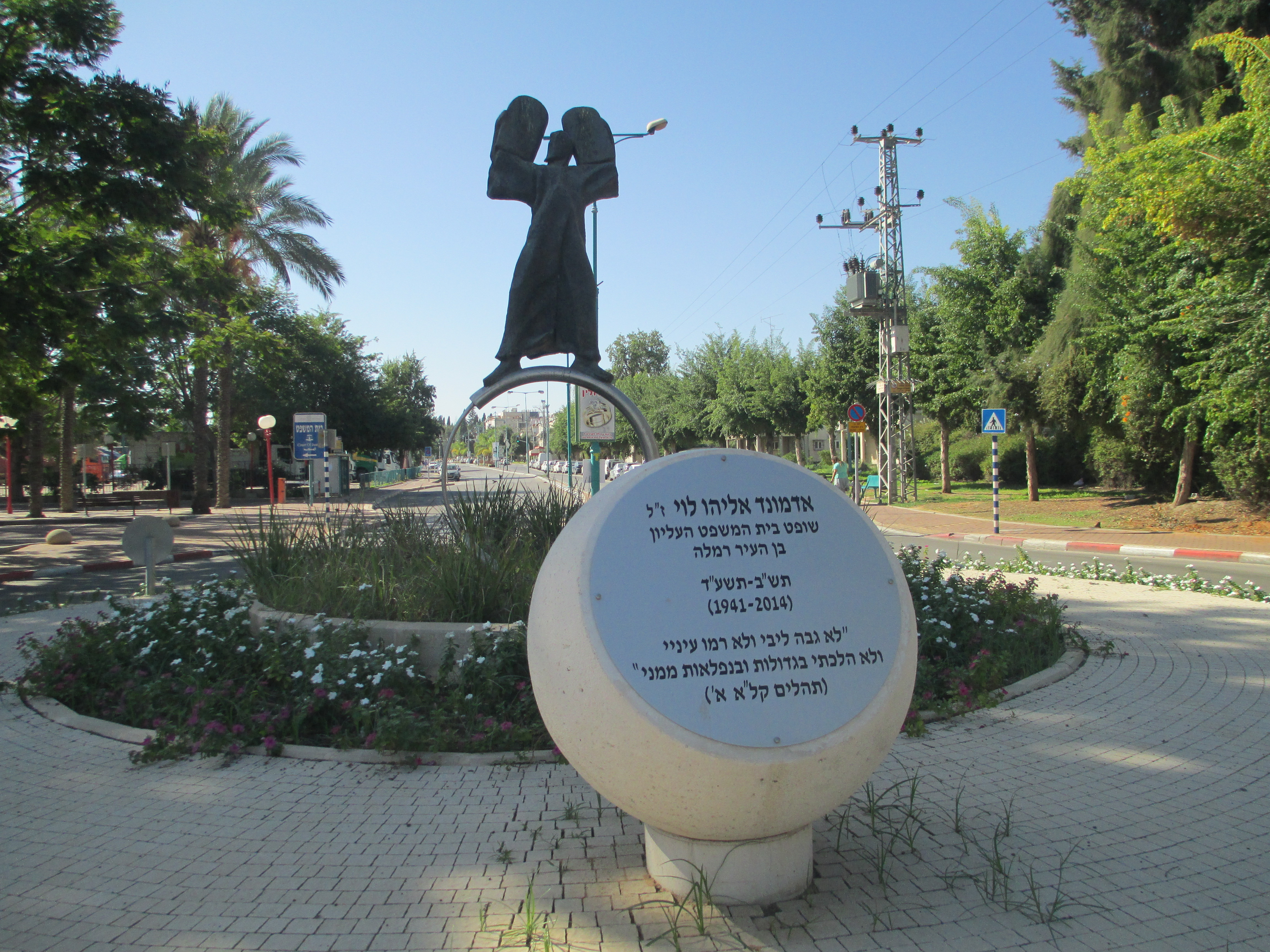 Edmund Levi circle in Ramla